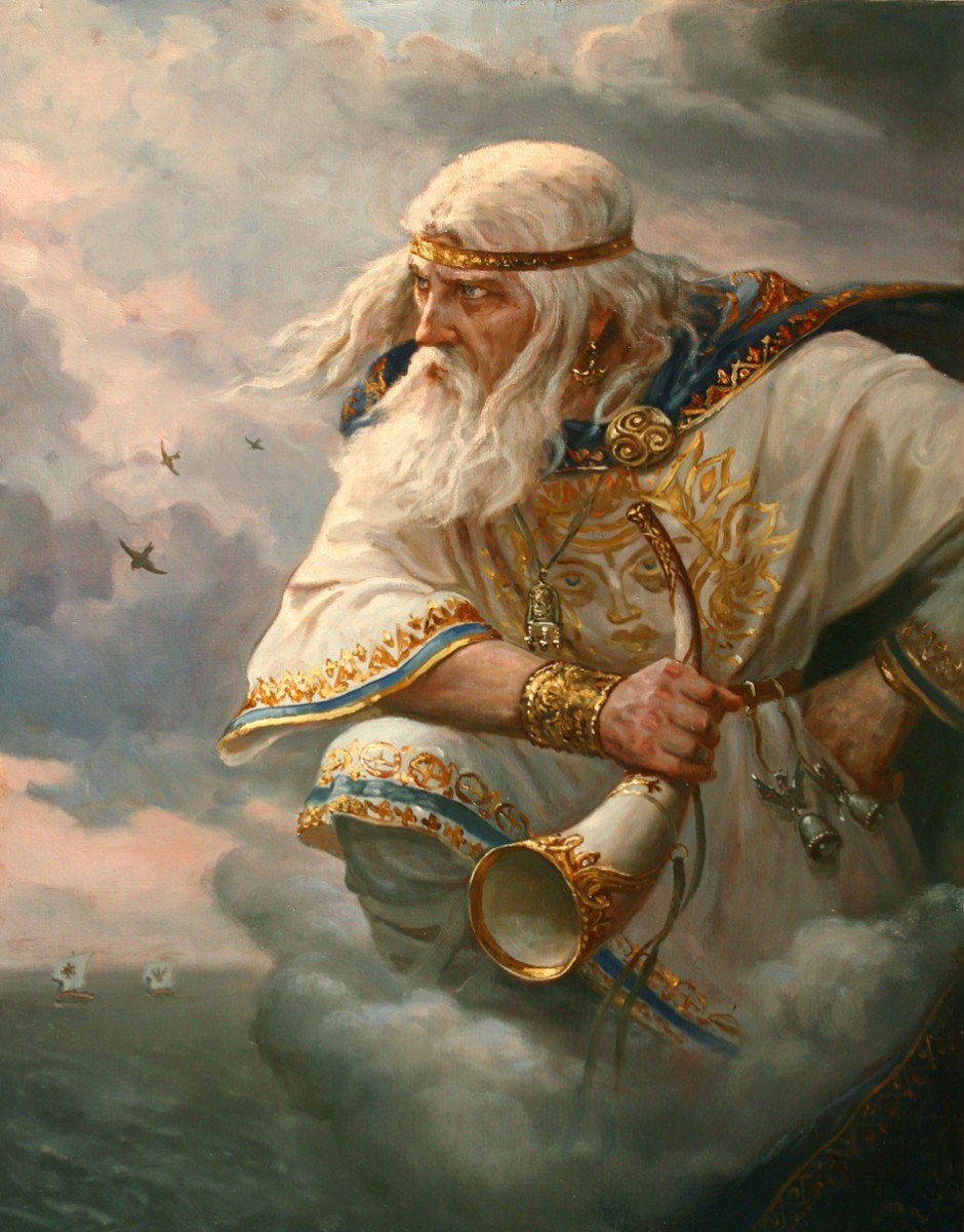 Stribog by Andrey Shishkin